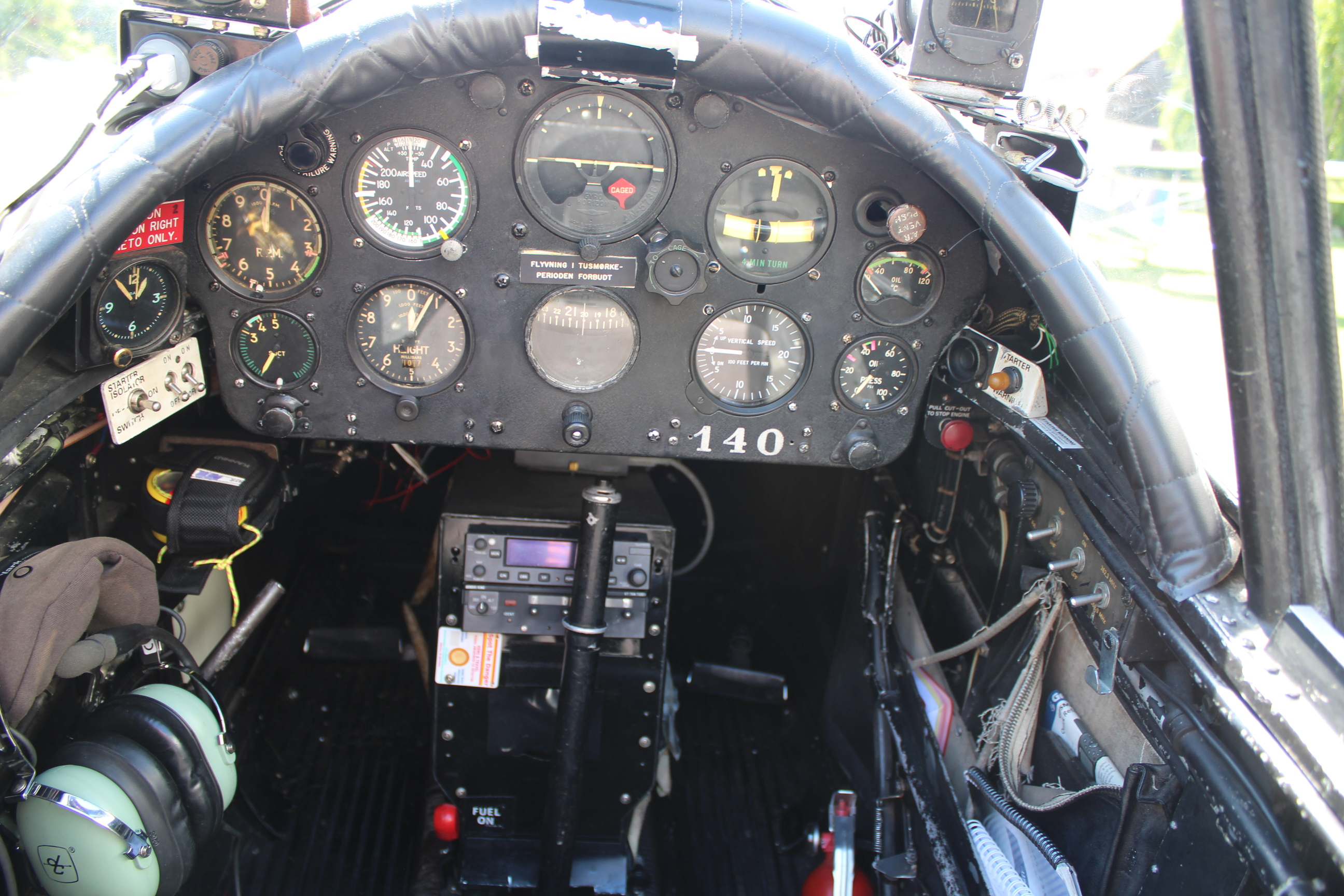 DHC-1 'Chipmunk' front set - Pilot/trainee